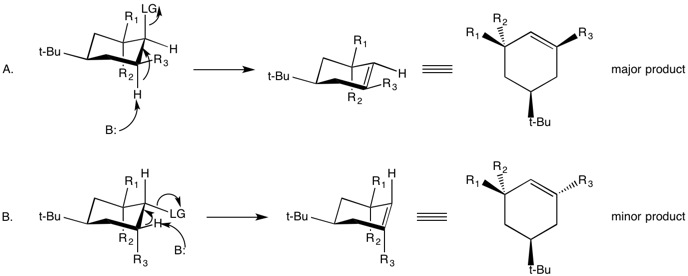 E2 cyclohexane elimination